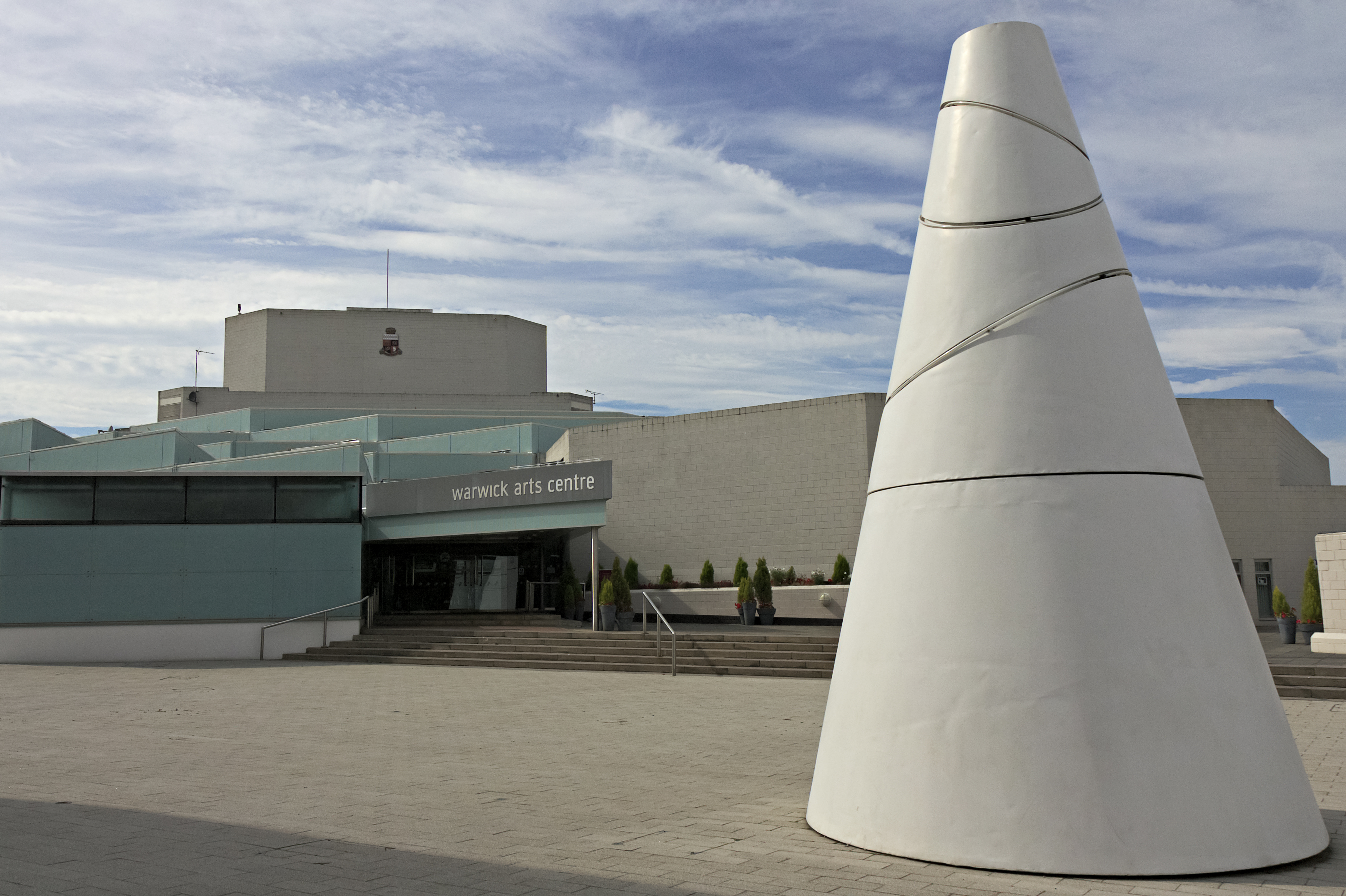 Warwick Arts Centre in Coventry, UK with "White Koan" in the foreground, a cone-shaped sculpture by Liliane Lijn.